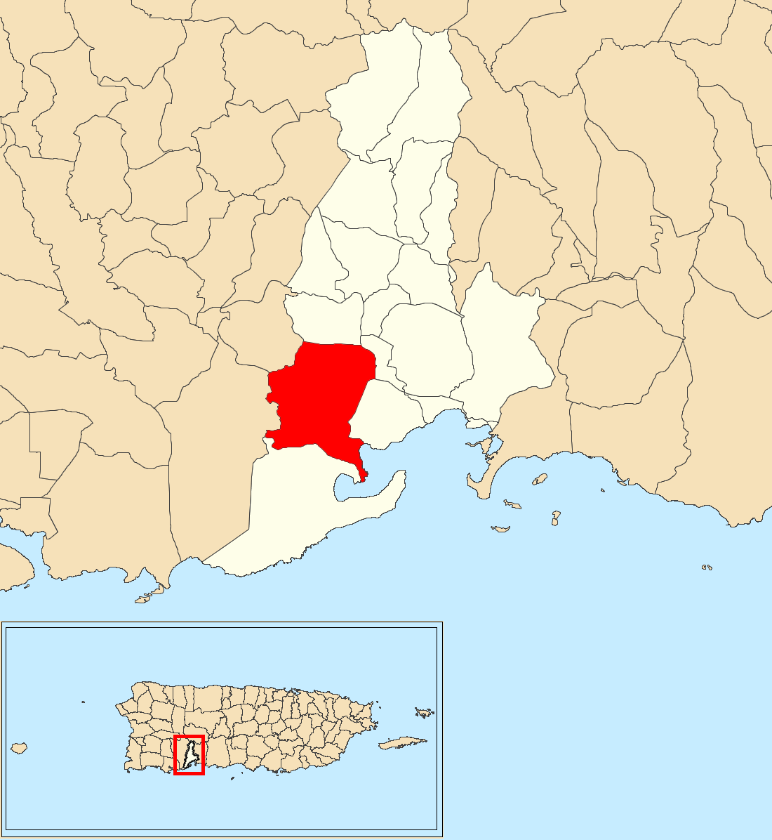 Indios, Guayanilla, Puerto Rico locator map